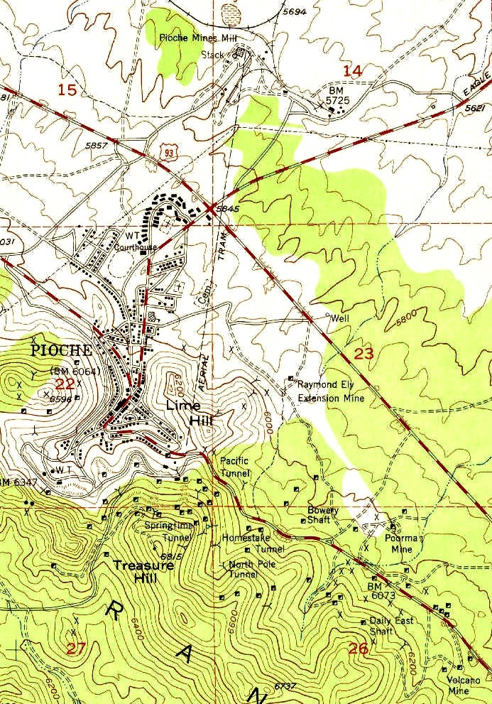 The tramway ran during the 1920s and 1930s and was used for the transportation of silver and nickel ore as noted on this 1953 map